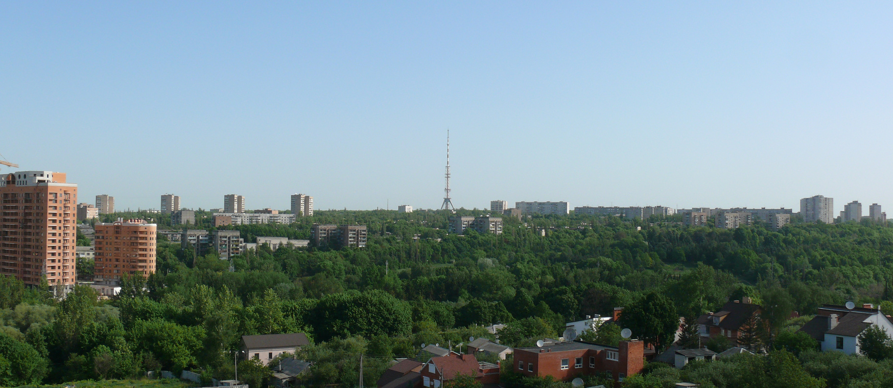 Pavlovo Pole in Kharkiv